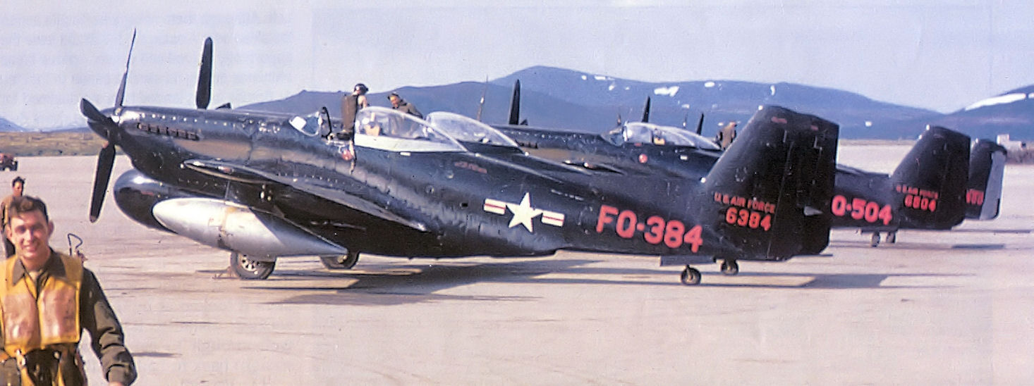 North American P-82H Twin Mustang 46-384 and 46-504 on the ramp at Ladd AFB Alaska, about 1951